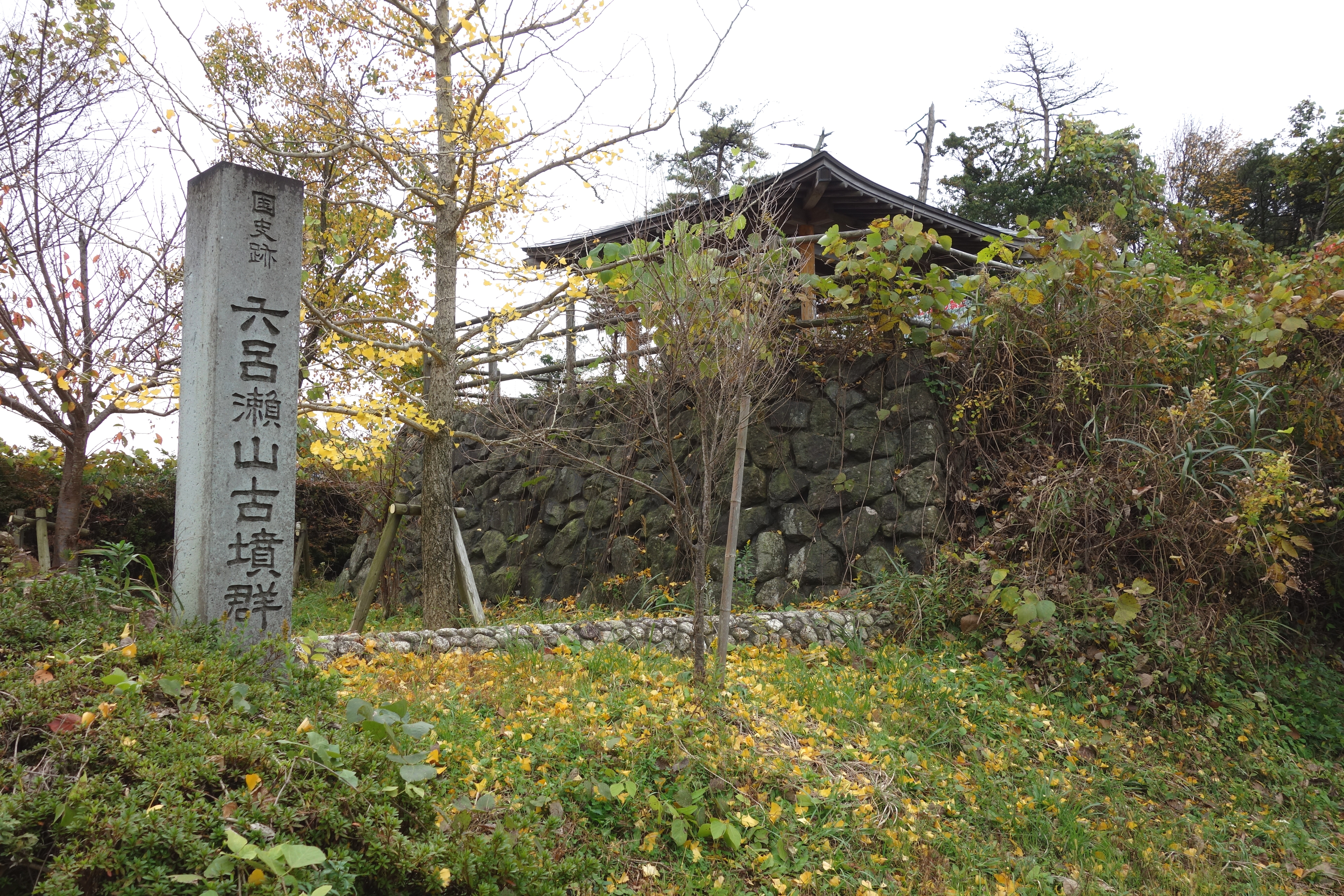 Kofun at Rokuroseyama, Sakai-shi, Fukui Pref., Japan